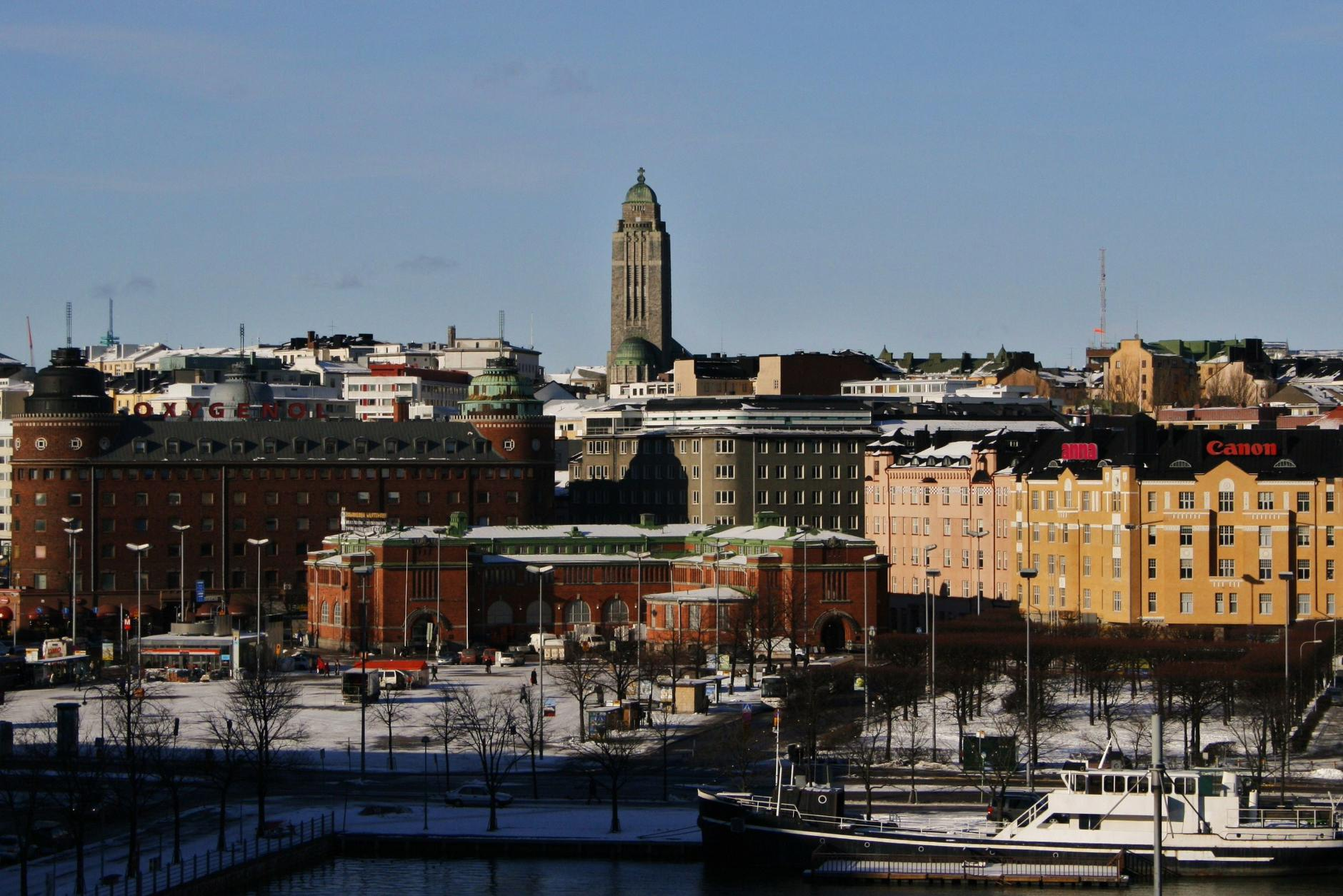 The church of Kallio on top of the hill. Hakaniemi marketplace in the front.